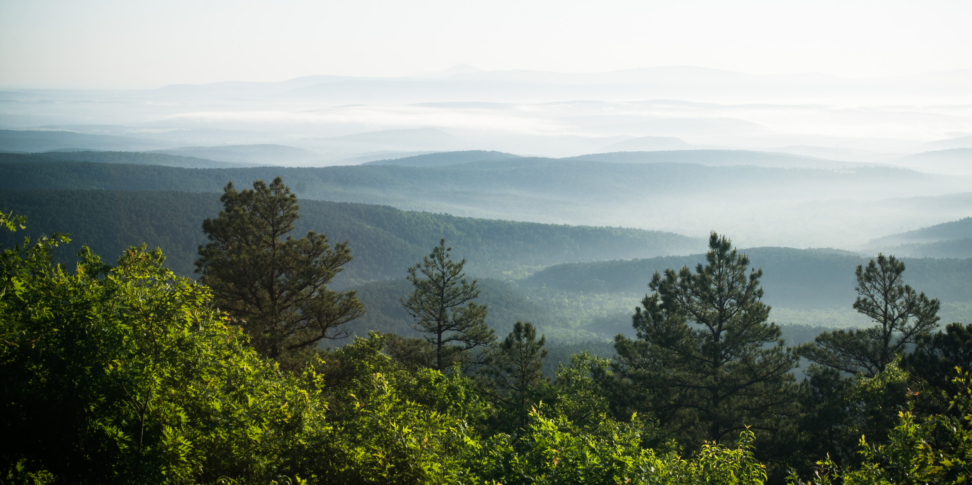 Ouachita Mountains